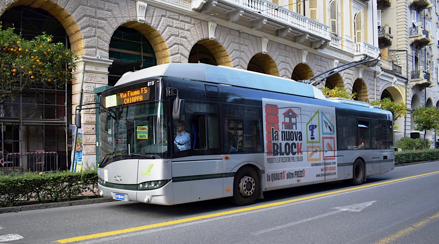 La Spezia trolleybus 819, a Solaris "Trollino" 12, southwest-bound on Via Domenico Chiodo just north of Via Prione and Via Armando Diaz, westbound on route 3.